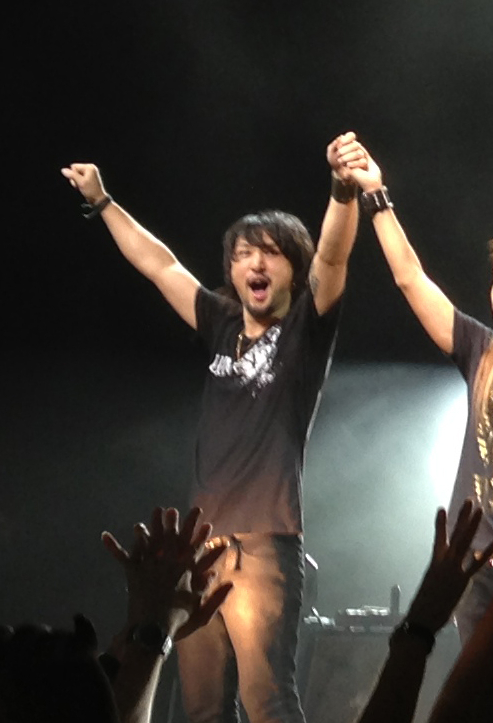 J of Luna Sea in Singapore on February 8, 2013. A crop derived from an image with a Creative Commons license on Wikimedia Commons.